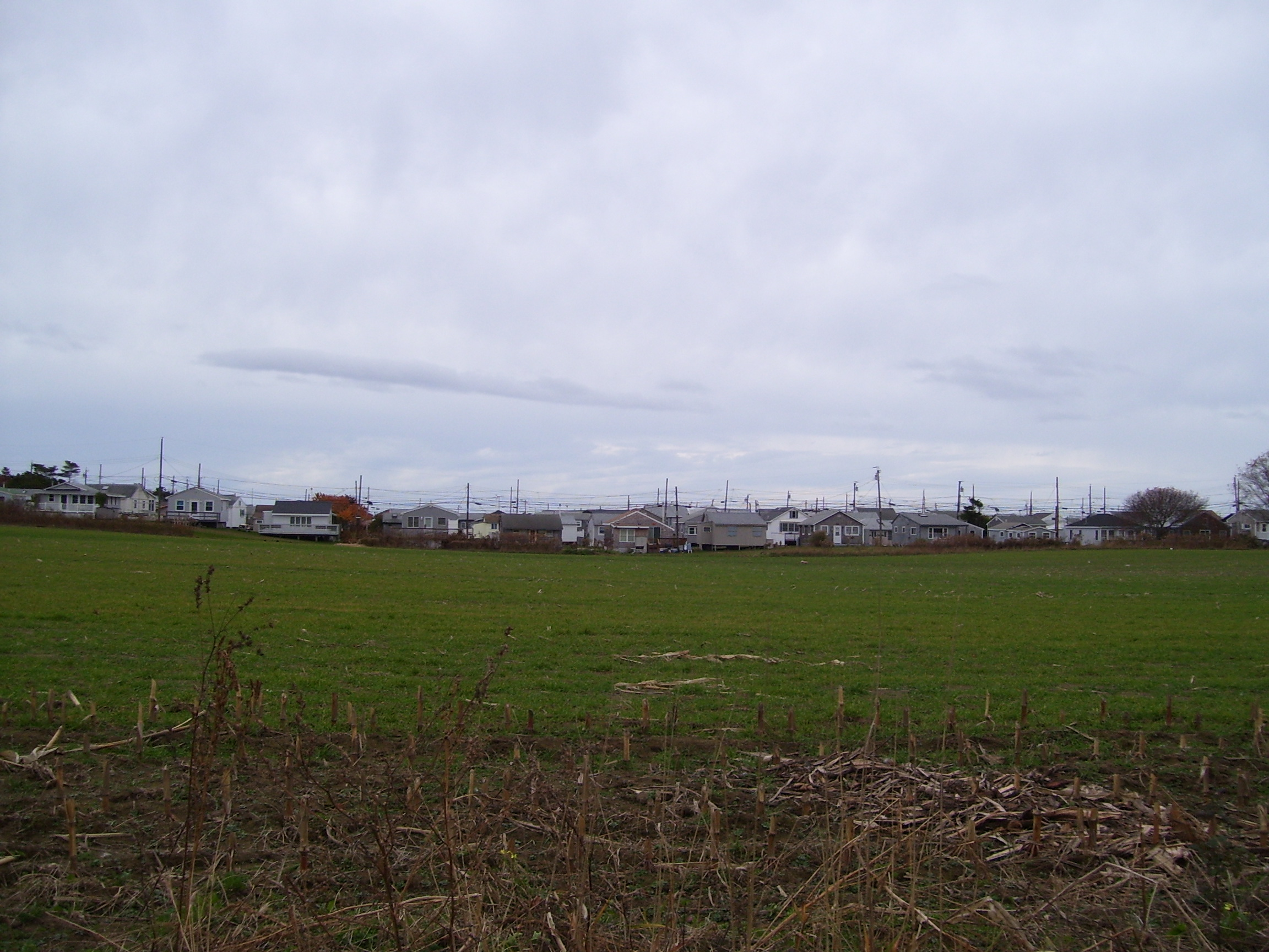 This is my 2008 photo of Matunuck, Rhode Island's Roy Carpenter Beach cottages.